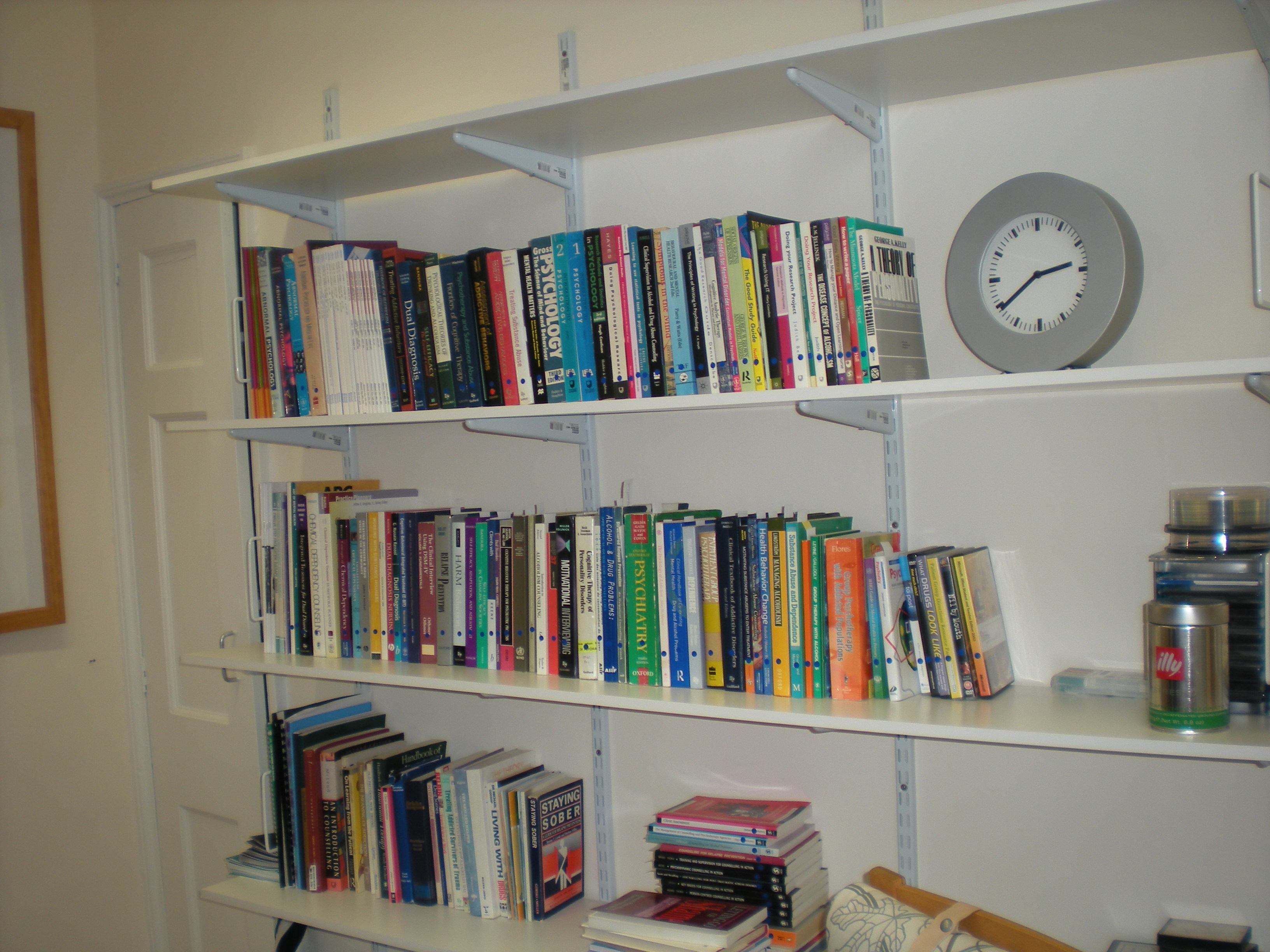 Private library